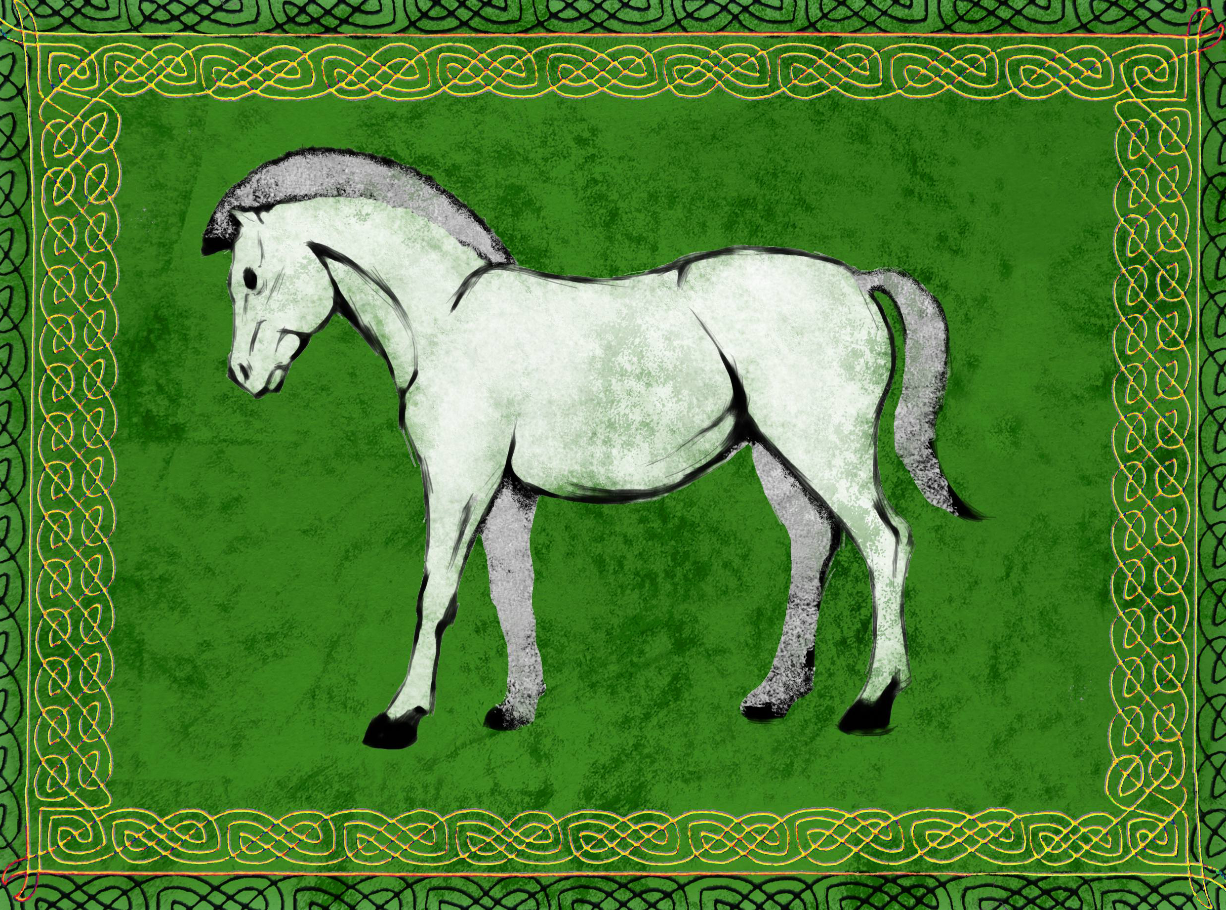 drawing of one white horse on a green background and frame with Celtic design